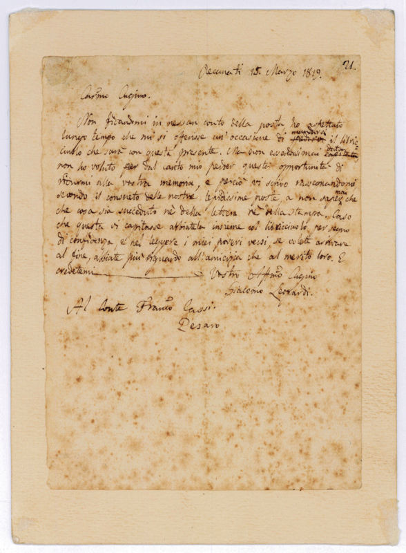 Letter by the Italian poet Giacomo Leopardi to his cousin, Conte Francesco Cassi in Pesaro, written 15th March 1819 in Recanati.